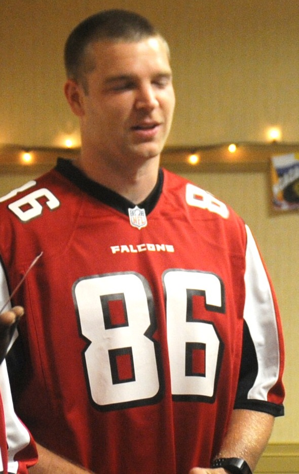 At the end of the first day of the National Guard Association of Georgia Conference, some of the Atlanta Falcons football players came out to show their love and support of our troops and their spouses. L-R: Phillipkeith Manley (#68), #34 Bradie Ewing, and #86 Chase Coffman